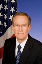 A photo of former Acting Labor Secretary Edward C. Hugler (2009)